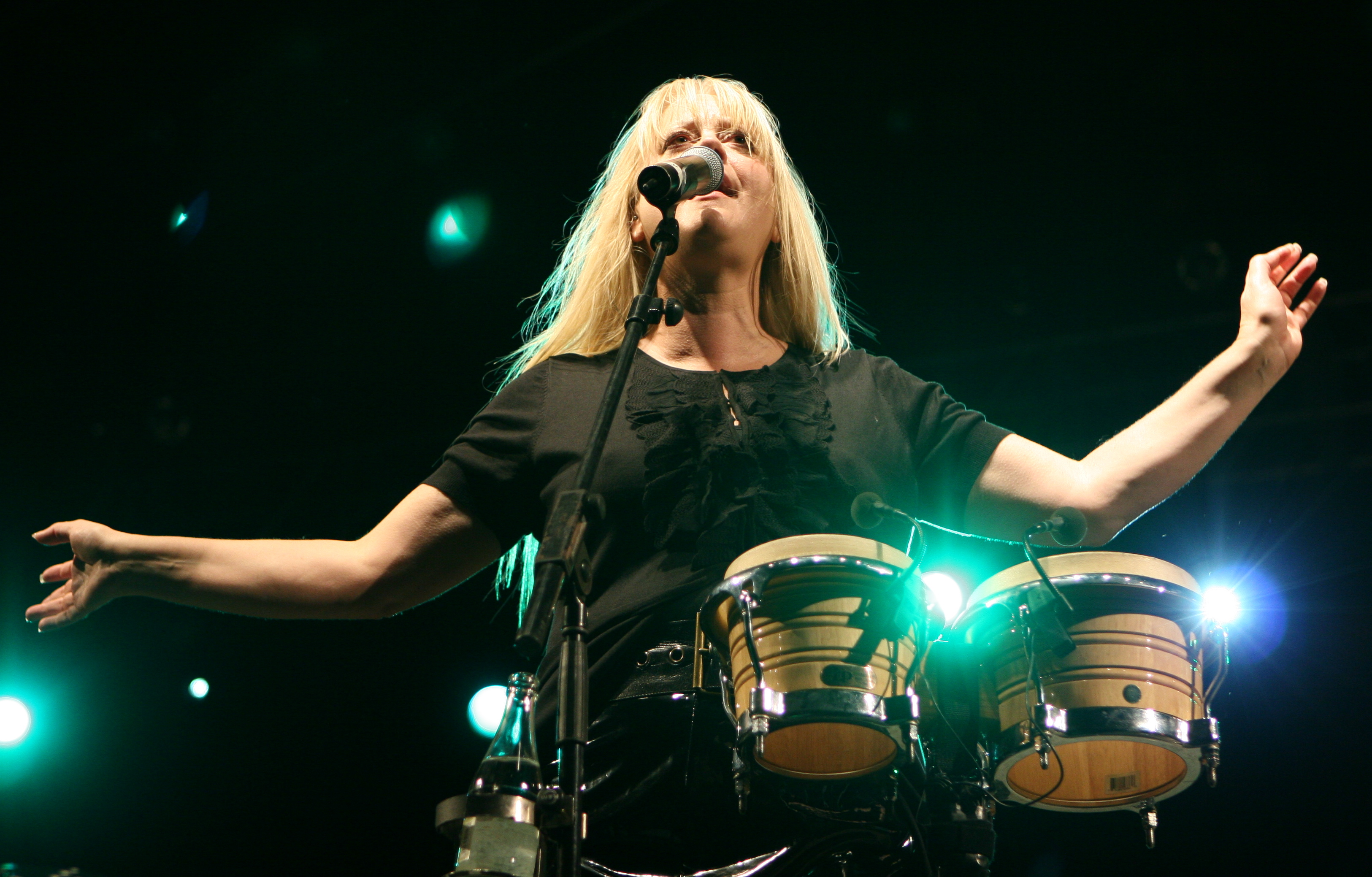 The B52s en Barcelona